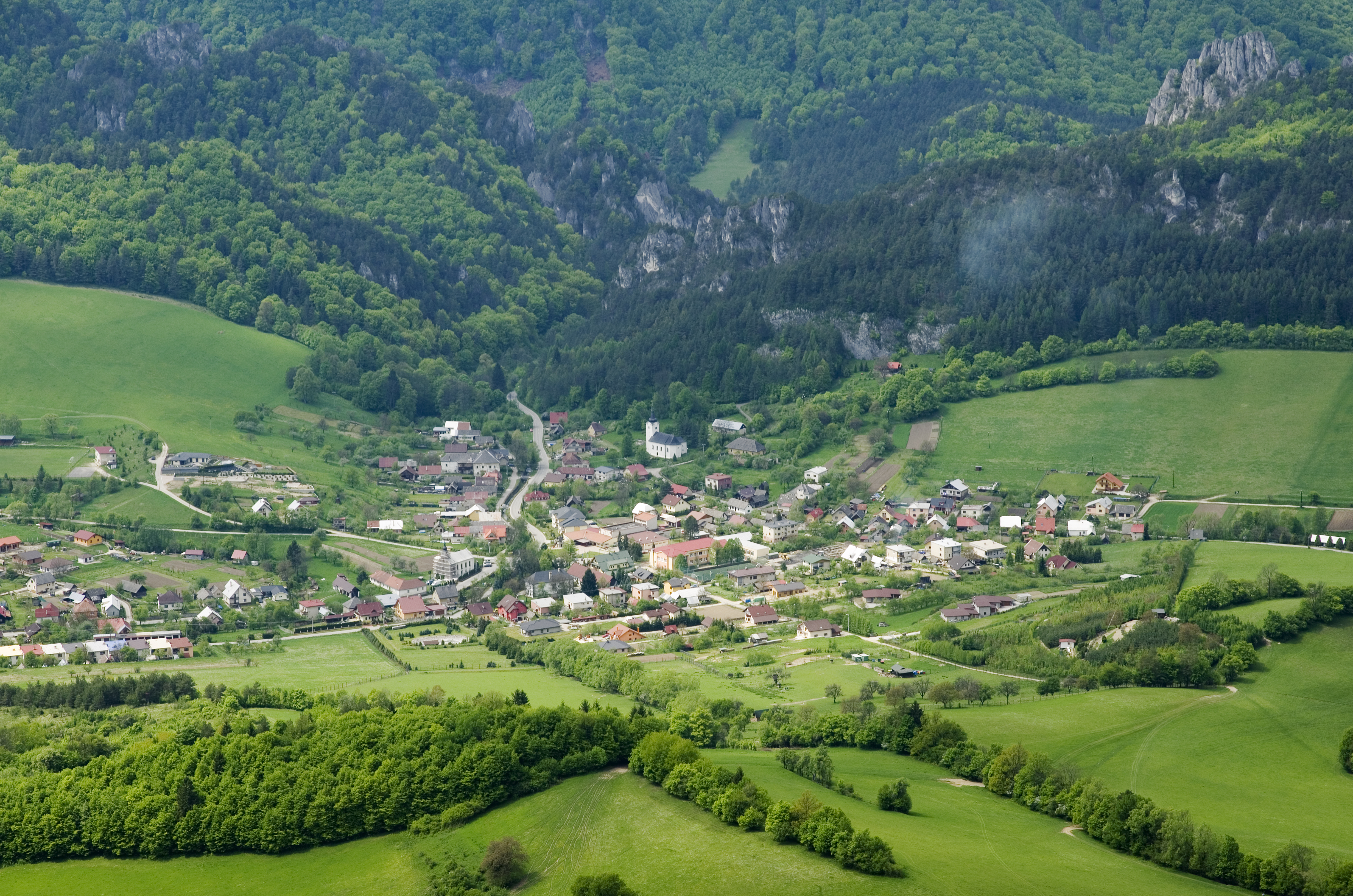 Súľov-Hradná village - part Súľov, Slovakia. Aerial view from surrounding rocks.